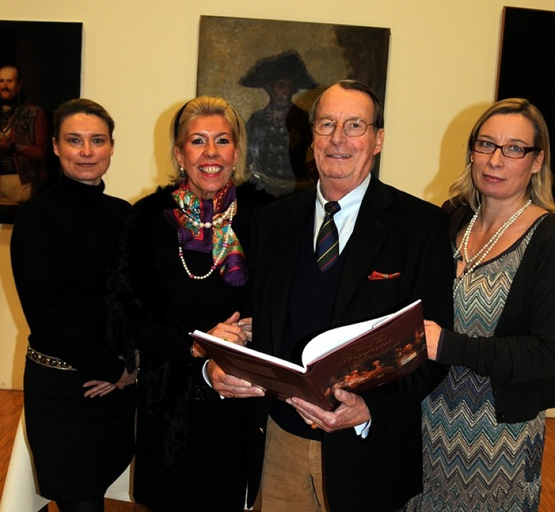 Michael, Prince of Prussia, Prussian Museum in Wesel, Germany, January 2010